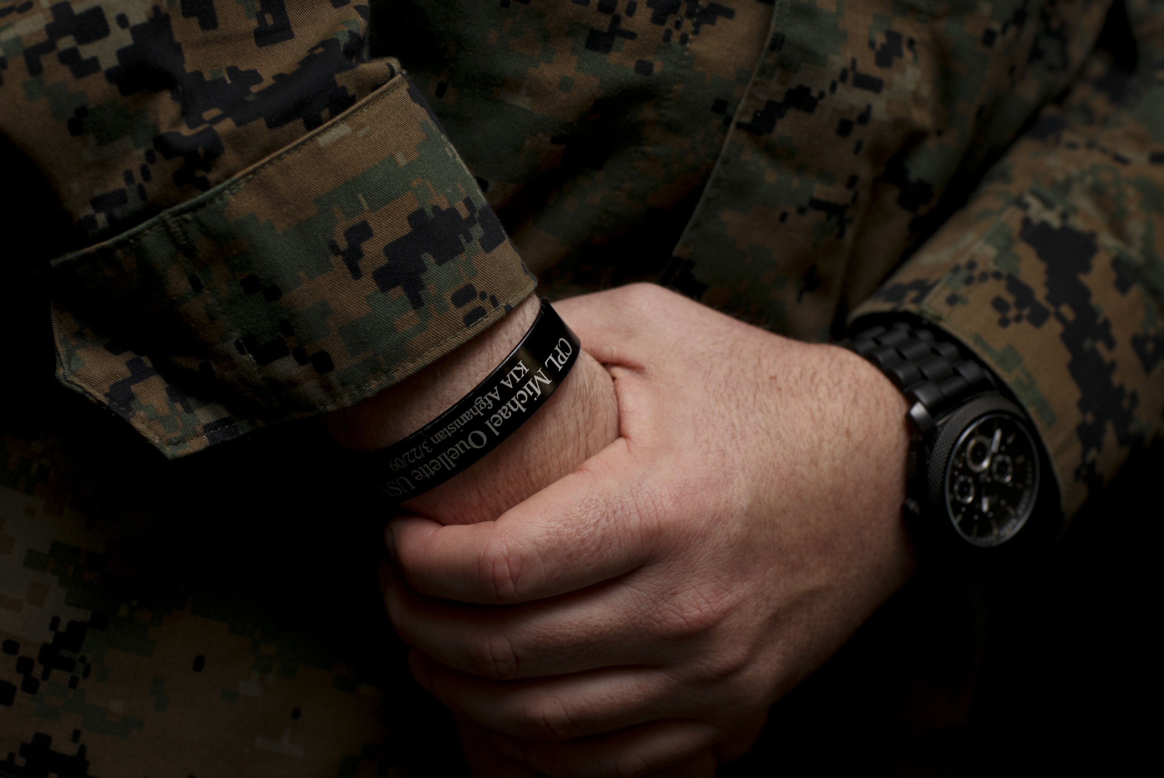 Petty Officer 3rd Class Matthew Nolen, a corpsman with Company L, 3rd Battalion, 8th Marine Regiment, is reminded of his fallen squad leader by the sight of his memorial bracelet or “KIA” (killed in action) bracelet he wears in honor of Cpl. Michael W. Ouellette, who was killed during a patrol in Afghanistan. Ouellette was posthumously awarded the Navy Cross Nov. 10, 2010, for his actions during a firefight in the Now Zad district of Helmand Province, Afghanistan, March 22, 2009. Secretary of the Navy Ray Mabus presented the medal to his mother, Donna Ouellette, in a ceremony in Ouellette’s hometown.